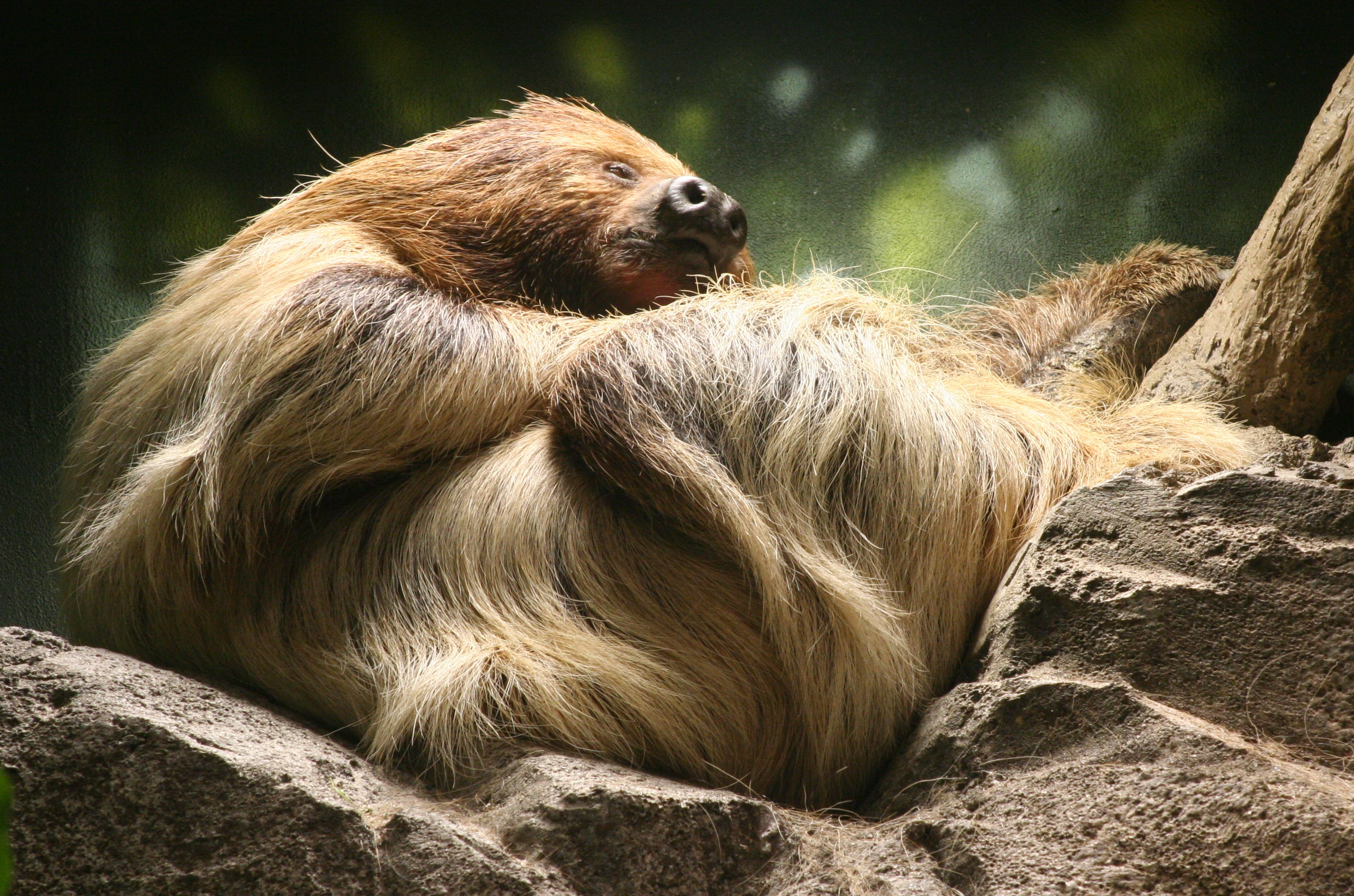 Linnaeus's Two-toed Sloth (Choloepus didactylus) at the Buffalo Zoo